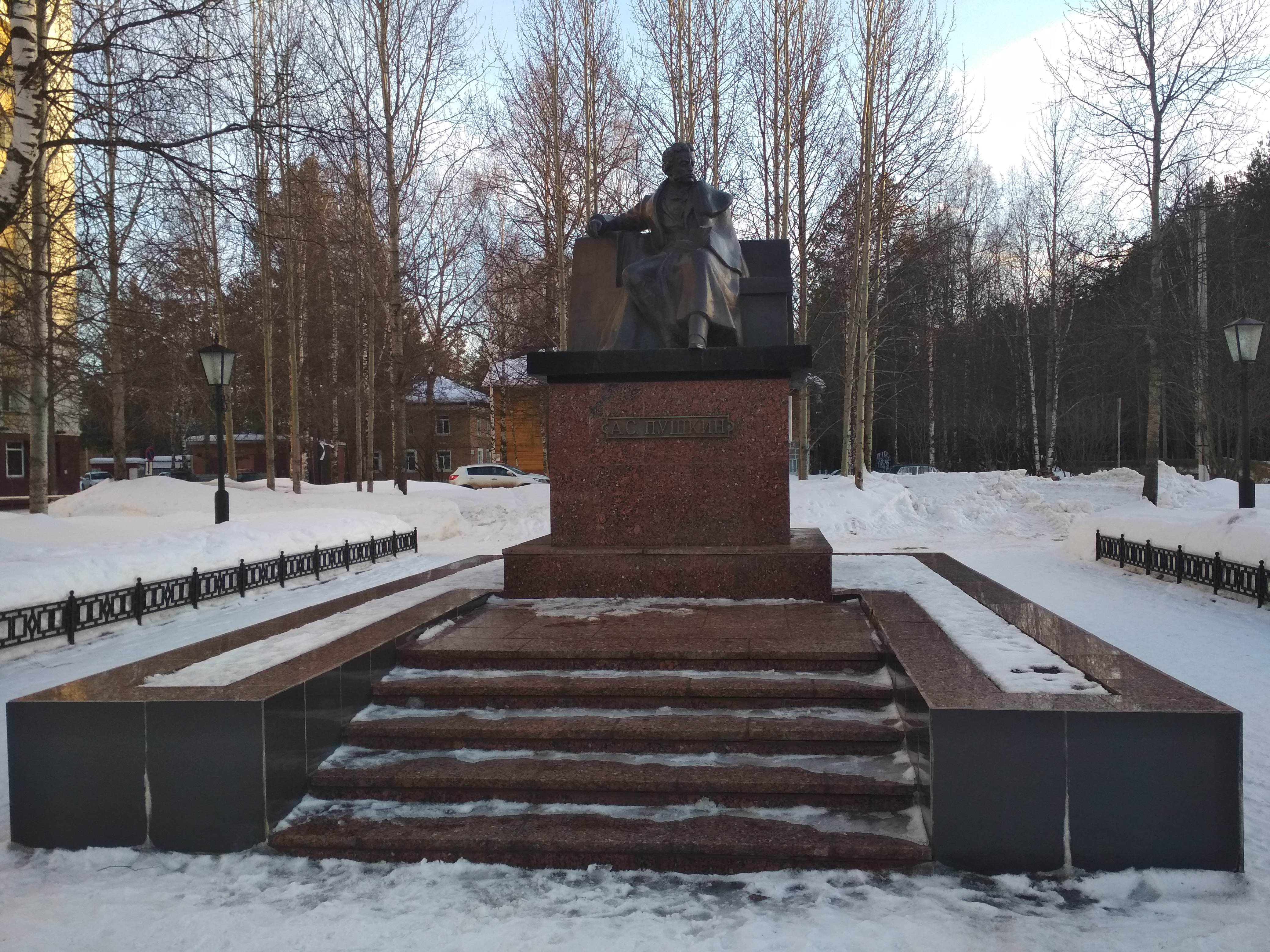 The monument to A. S. Pushkin by Bruni Nikolai Alexandrovich was created in 1937 in memory of the 100th anniversary of the death of the poet. The city of Ukhta, the Republic of Komi.